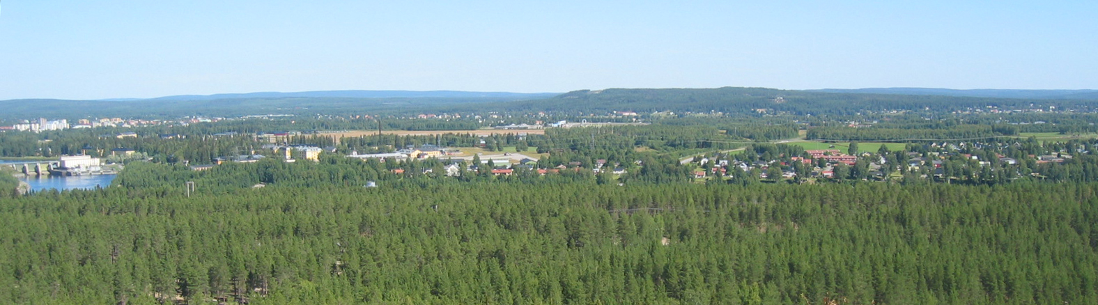 A view of southern Boden seen from Rödbergsfortet, part of Boden Fortress.